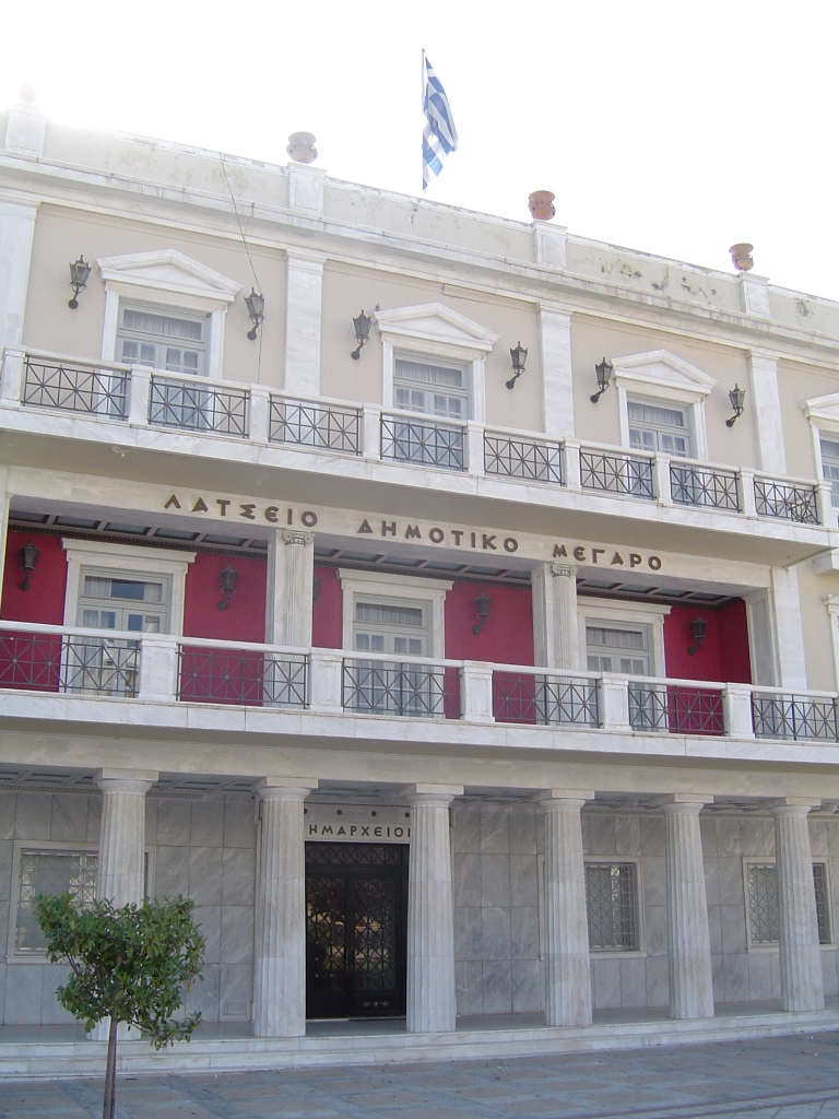 City Hall in Pyrgos, Peloponnese, Greece. Architect Ernst Ziller.